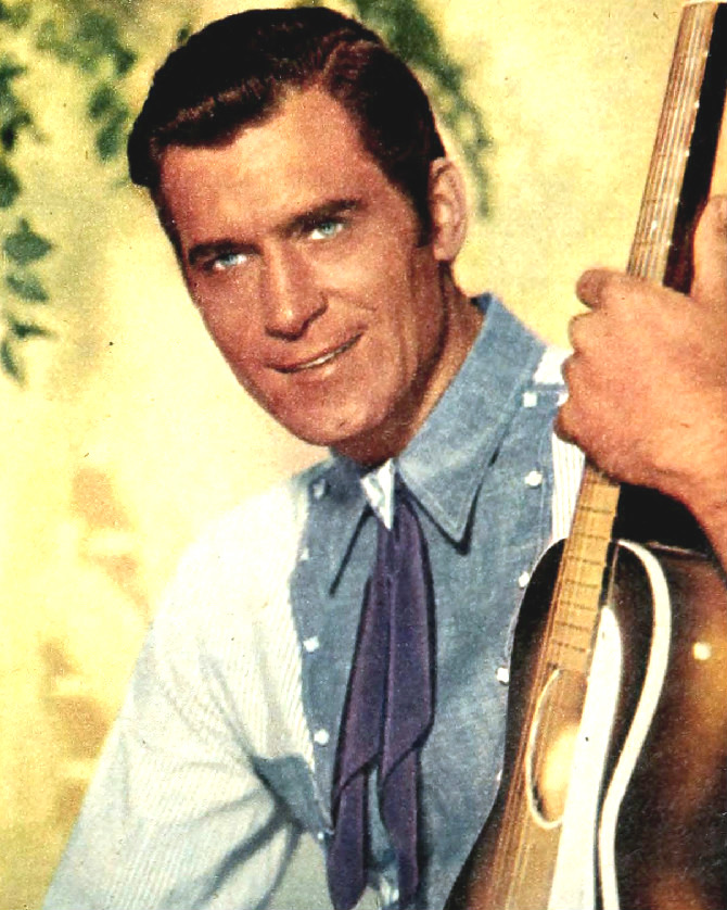 Photo of Clint Walker from the television program Cheyenne.